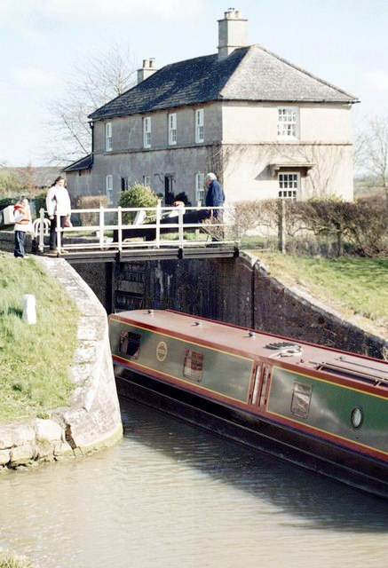 Lock Keeper's Cottage on the Kennet & Avon Canal at Semington "I'm presuming this is the Lock Keeper's Cottage at Semington by lock 15 on the Kennet & Avon Canal. The photographer is stand just where the Wilts & Berks canal joined the K&A. It was abandoned in 1941 but there are now plans to re-open the canal, some of which has disappeared under modern Swindon." Lock 15 of Semington Locks in Semington, Wiltshire The abandoned Wilts and Berks canal joined up with the Kennet and Avon canal at this point.